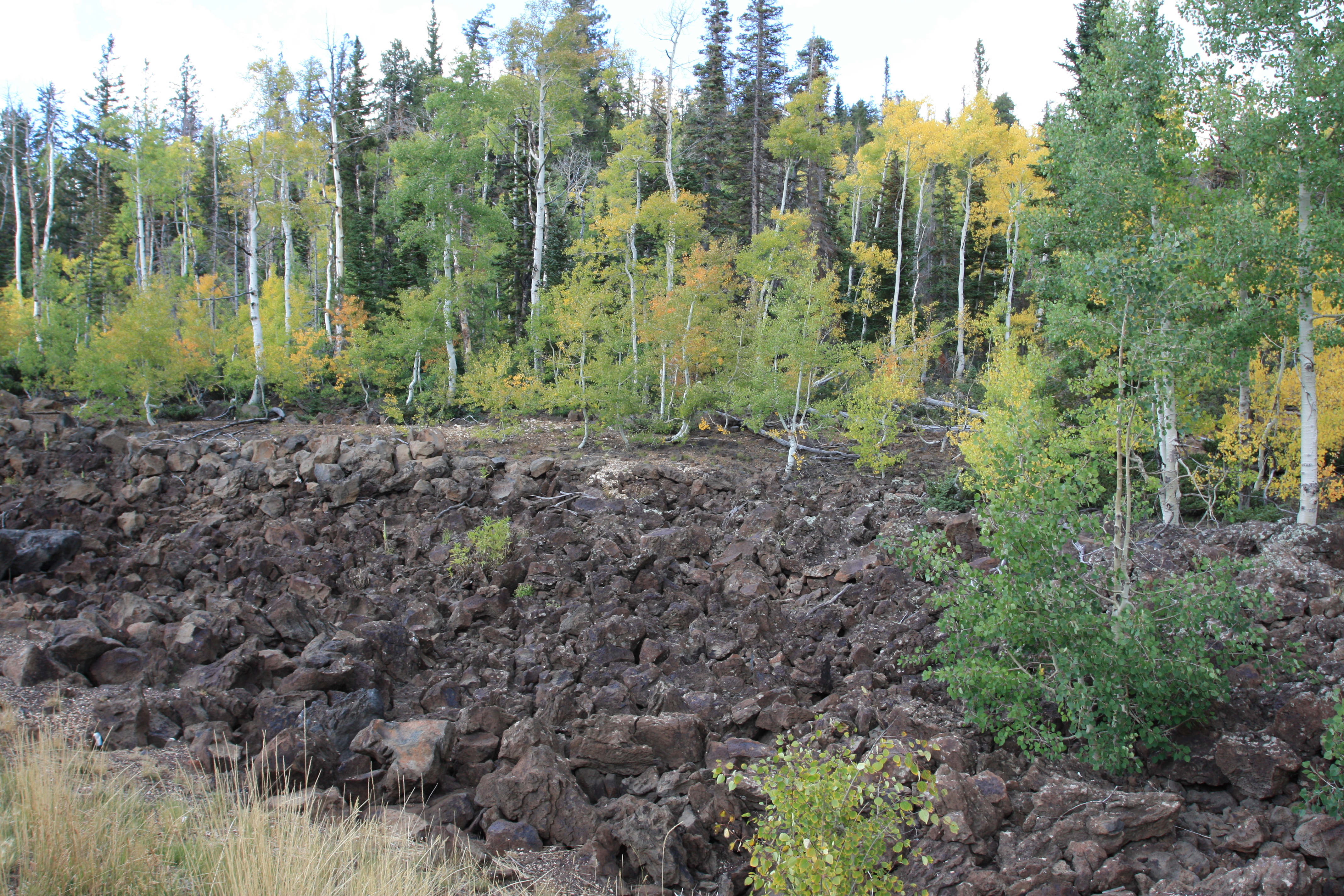 The Markagunt Plateau is an 800-square-mile (2,100 km2) plateau located in southwestern Utah between Interstate 15 and U.S. Route 89. It is one of the plateaus that make up the High Plateaus Section of the Colorado Plateau Province. The name is derived from a Piute word meaning "Highland of Trees". The plateau encompasses Cedar Breaks National Monument, and is part of the Cedar Mountain District of Dixie National Forest. The highest point on the plateau is Brian Head Peak at 11,307 feet (3,446 m). The Markagunt Plateau volcanic field is an area of basaltic cinder cones and blocky lava flows. The most recent flows occurred around 1050 CE and were preceded by a series of trachytic, andesitic and rhyolitic lava. The field lies east of Cedar Breaks National Monument. Navajo Lake was formed when a lava flow dammed a creek on the plateau. The youngest features of the Markagunt Plateau volcanic field are blocky unvegetated lava flows known locally as the 'Black Rock Desert.' They extend from near Miller Knoll on to the southeast. These flows also extend northeast to near Panguitch Lake.